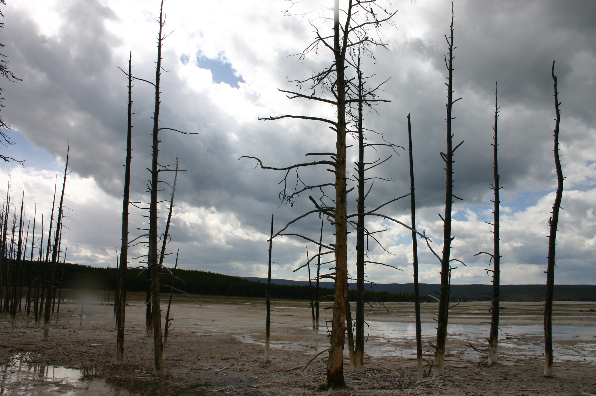 Originally it was a forest, then the trees (Pinus contorta subsp. latifolia) died when geothermal features started to develop in this place, then the geothermal features moved away leaving dead bacteria as white powders covering the place, and now some stagnant water lingers giving the area a touch of muddy pond.